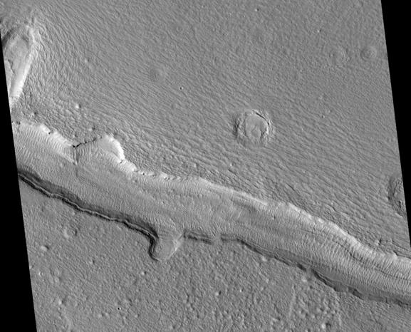 Galaxias Fossae Trough, as seen by hirise. Location is 36.9 North and 143.5 East. Image was taken by the Mars Reconnaissance Orbiter's HiRISE. The HiRISE camera was built by Ball Aerospace and Technology Corporation and is operated by the University of Arizona. Image courtesy NASA/JPL/University of Arizona.